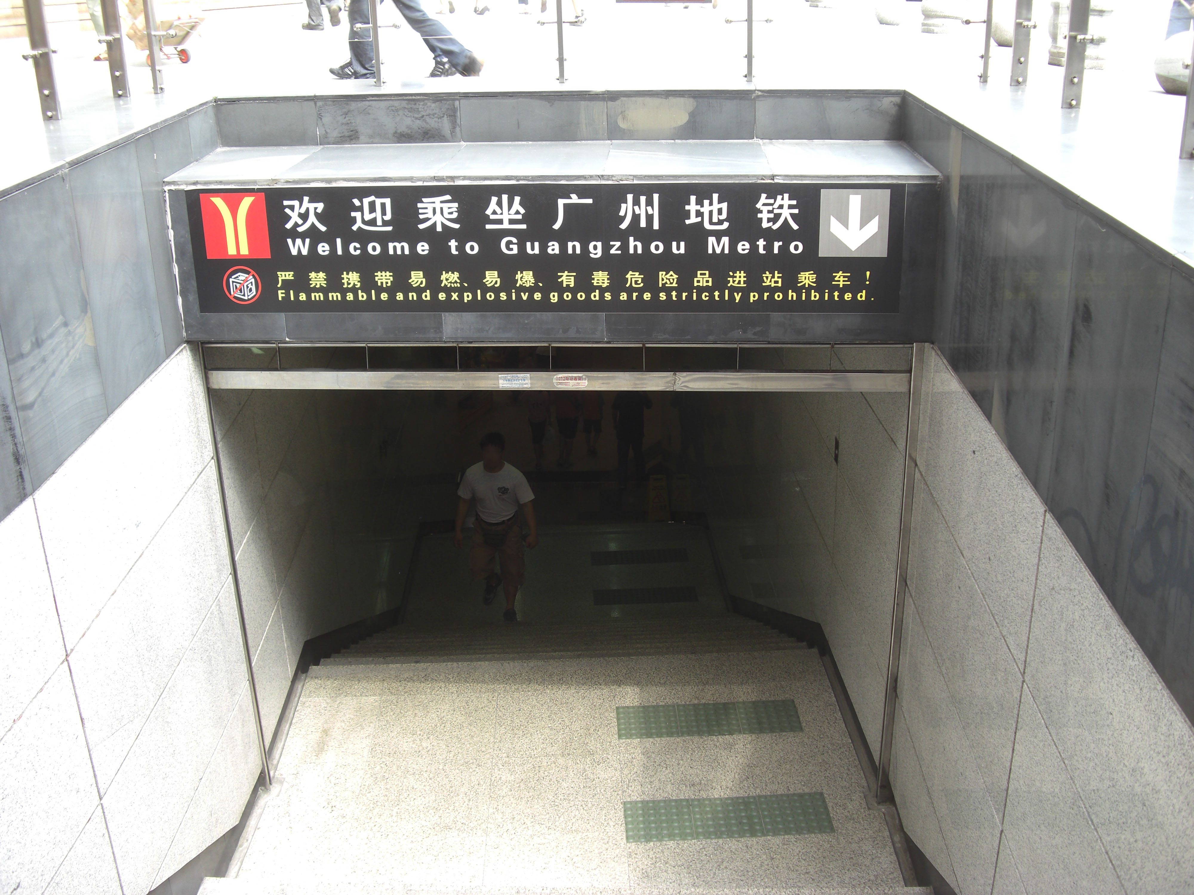 Haizhu Square Station,Guangzhou Metro,Guangzhou,China